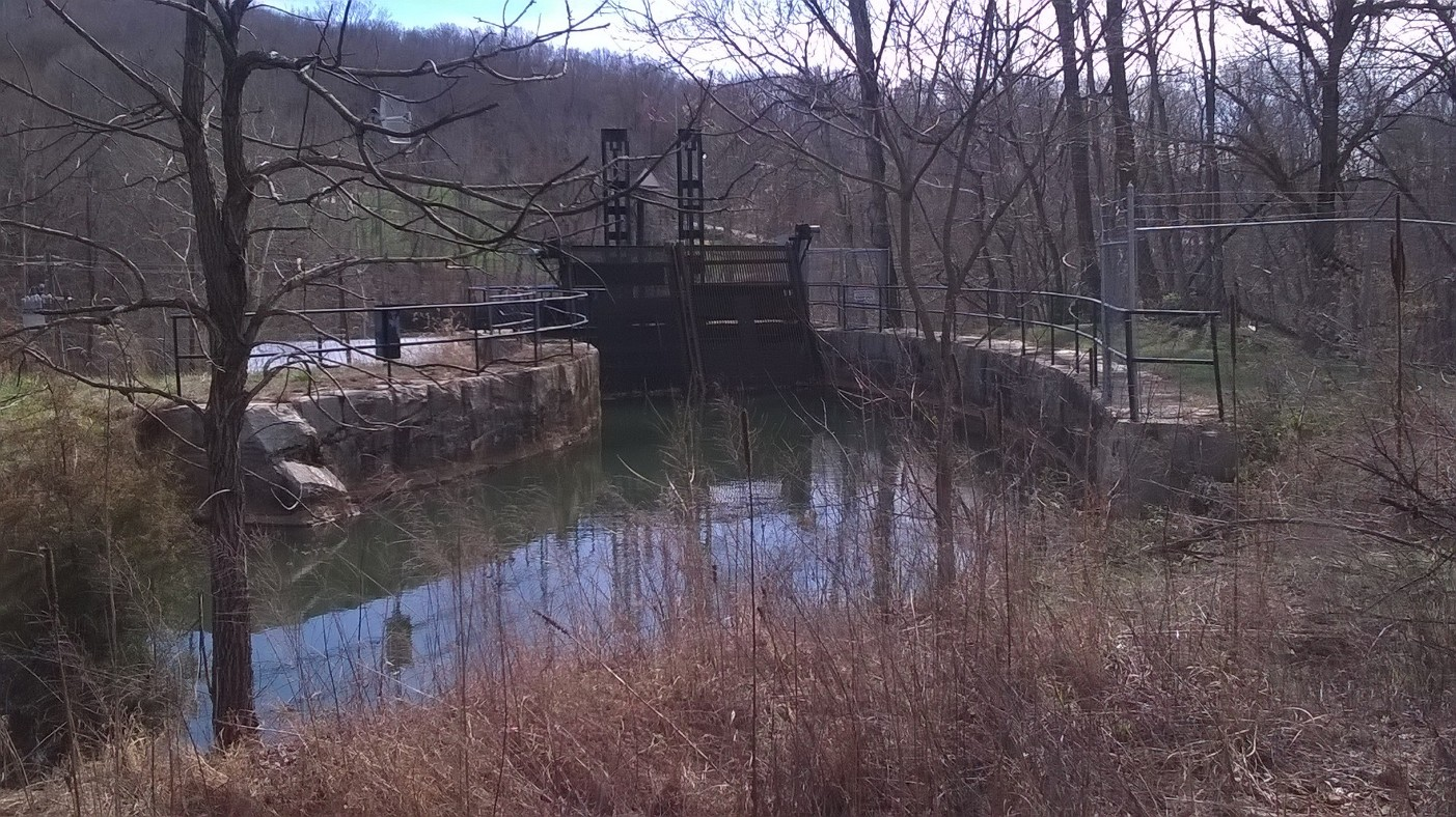 Artificial channel constructed for Avalon Mills with flume grate